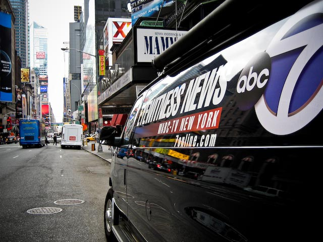 ABC's Eyewitness News on Seventh Avenue in New York City